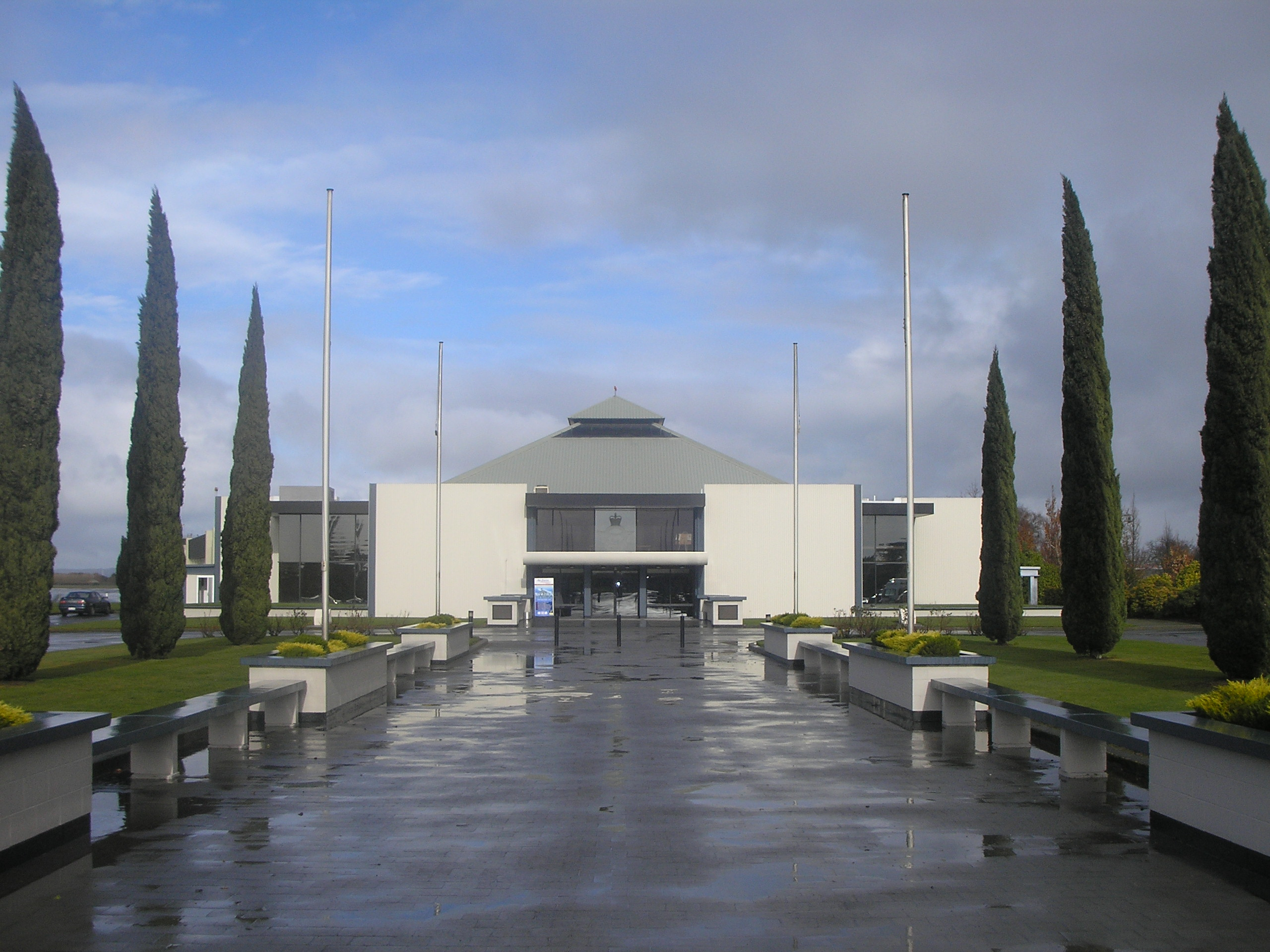 Entrance to the RNZAF Museum at Wigram, Christchurch, New Zealand shot 2008